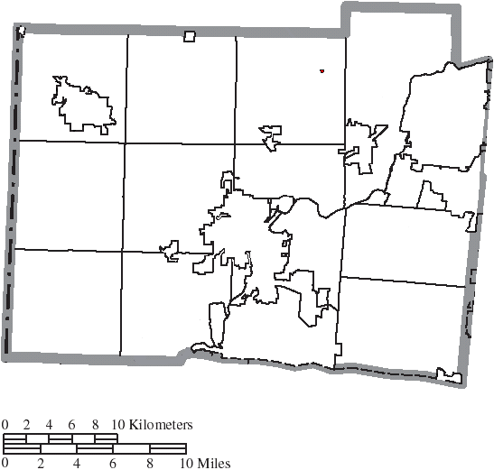 Map of the municipal and township boundaries of Butler County, Ohio, United States, as of the 2000 census, with the location of the village of Jacksonburg highlighted. Township borders are shown only in unincorporated areas in order to differentiate incorporated and unincorporated areas more clearly.